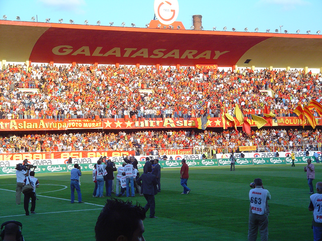 Galatasaray-Konyaspor game in August 2004. Property of mine.